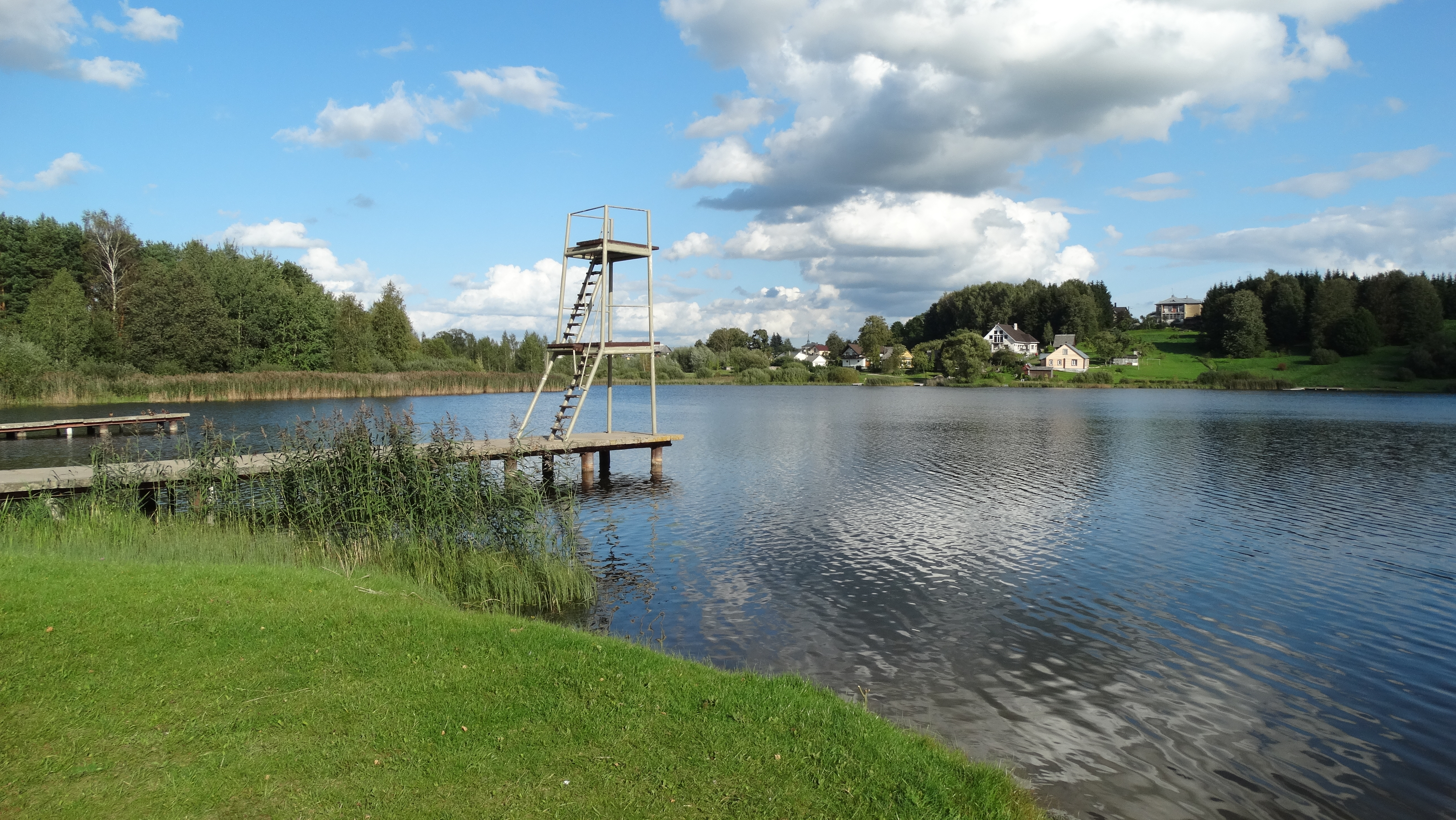 Vyžuonaitis Lake, Utena, Lithuania